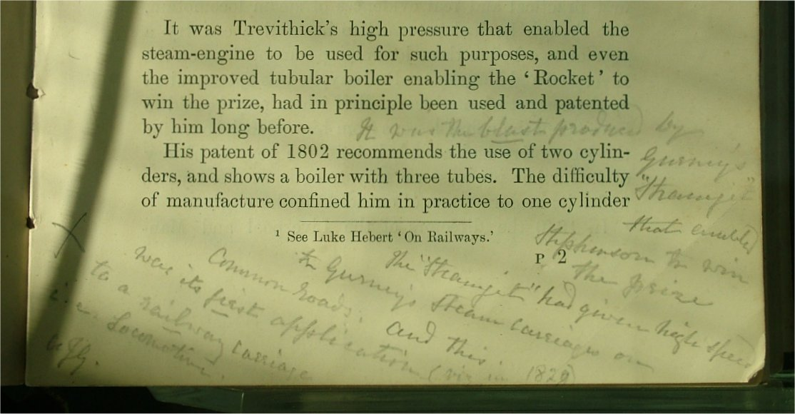 Annotation by Anna Jane Gurney in Trams and Railway Locomotives, specifying that her father's "steamjet" (steam blast pipe) had been responsible for Robert Stephenson's success with Locomotion. The annotation reads: It was the blast produced by Gurney's "Steamjet" that enabled Stephenson to win the prize. The "Steamjet" had given high speed to Gurney's steam carriages on common roads. And this was its first application to a railway carriage i.e. Locomotion.